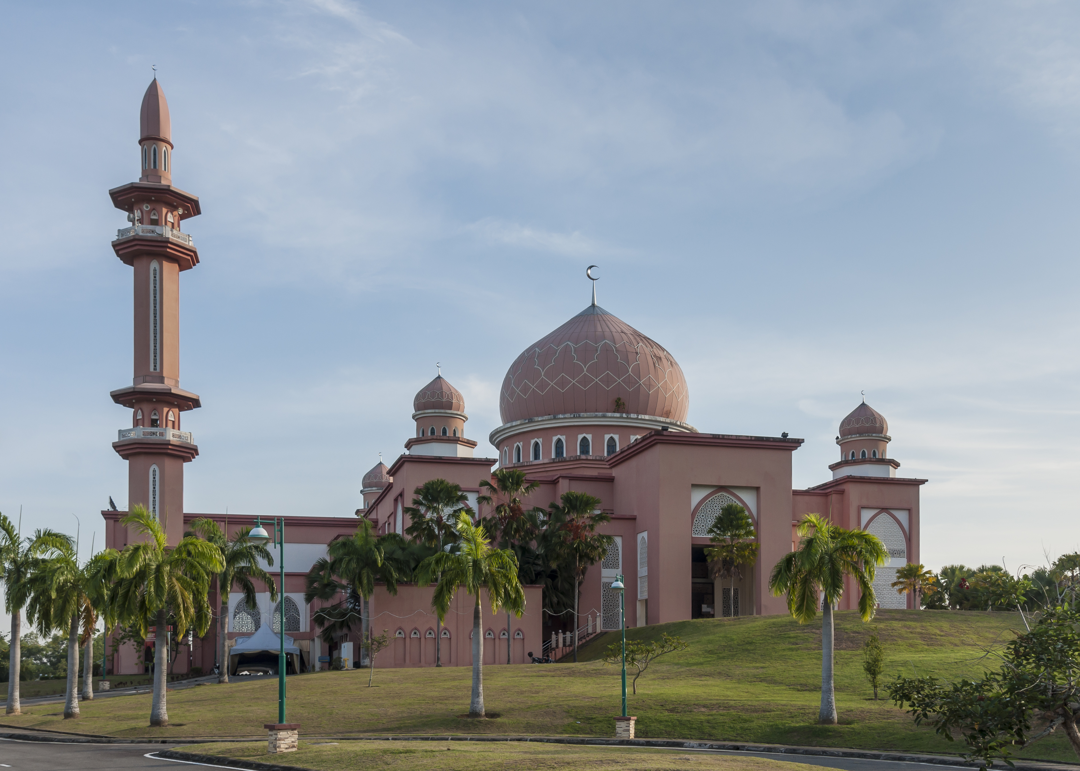 Kota Kinabalu, Sabah: Mosque of Universiti Malaysia Sabah (UMS)